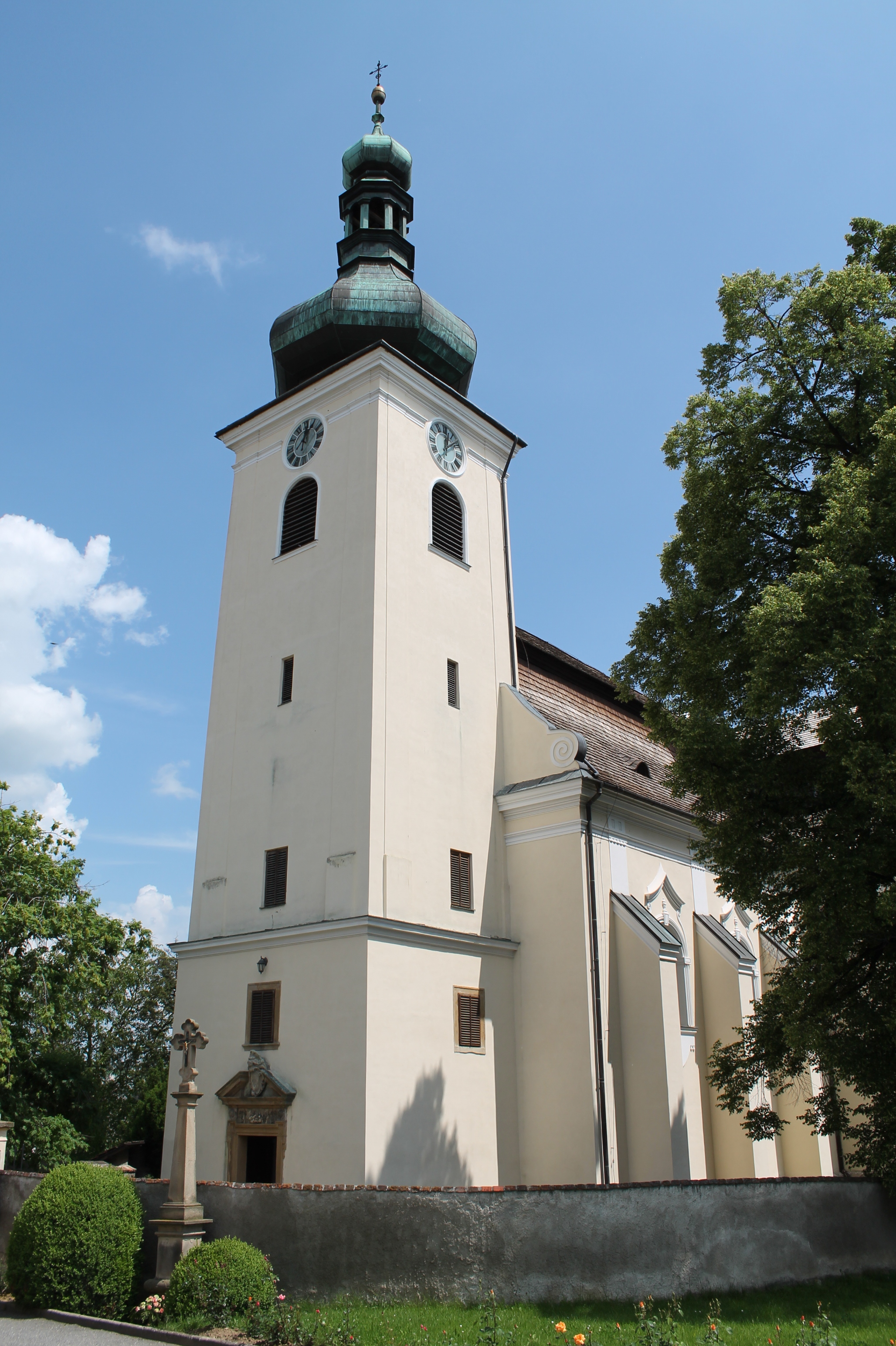 Church of Saint Martin, Buchlovice, Uherské Hradiště Disctrict, Czech Republic